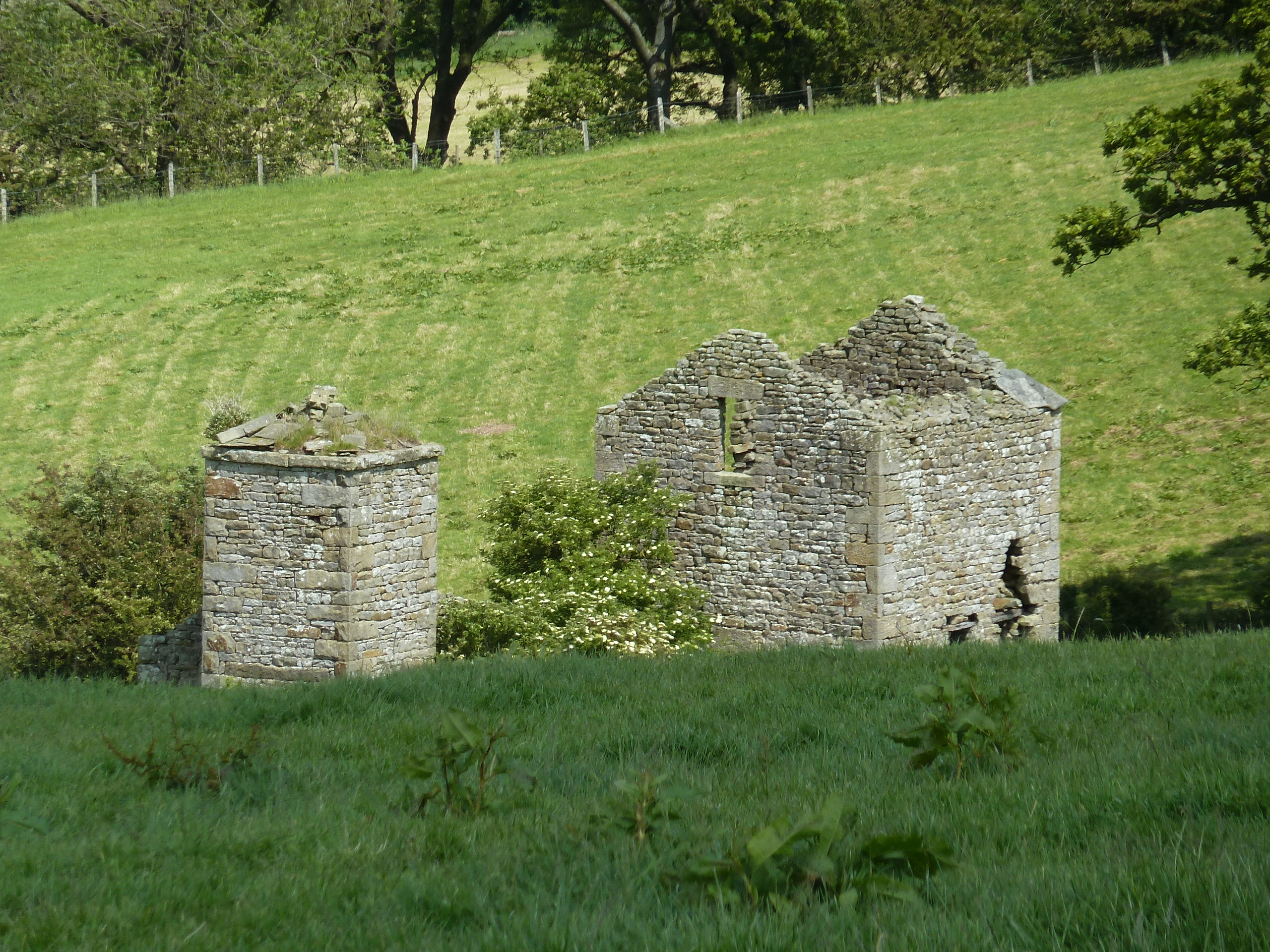 Photograph of the Clintsfield Colliery Engine House, Tatham, Lancashire